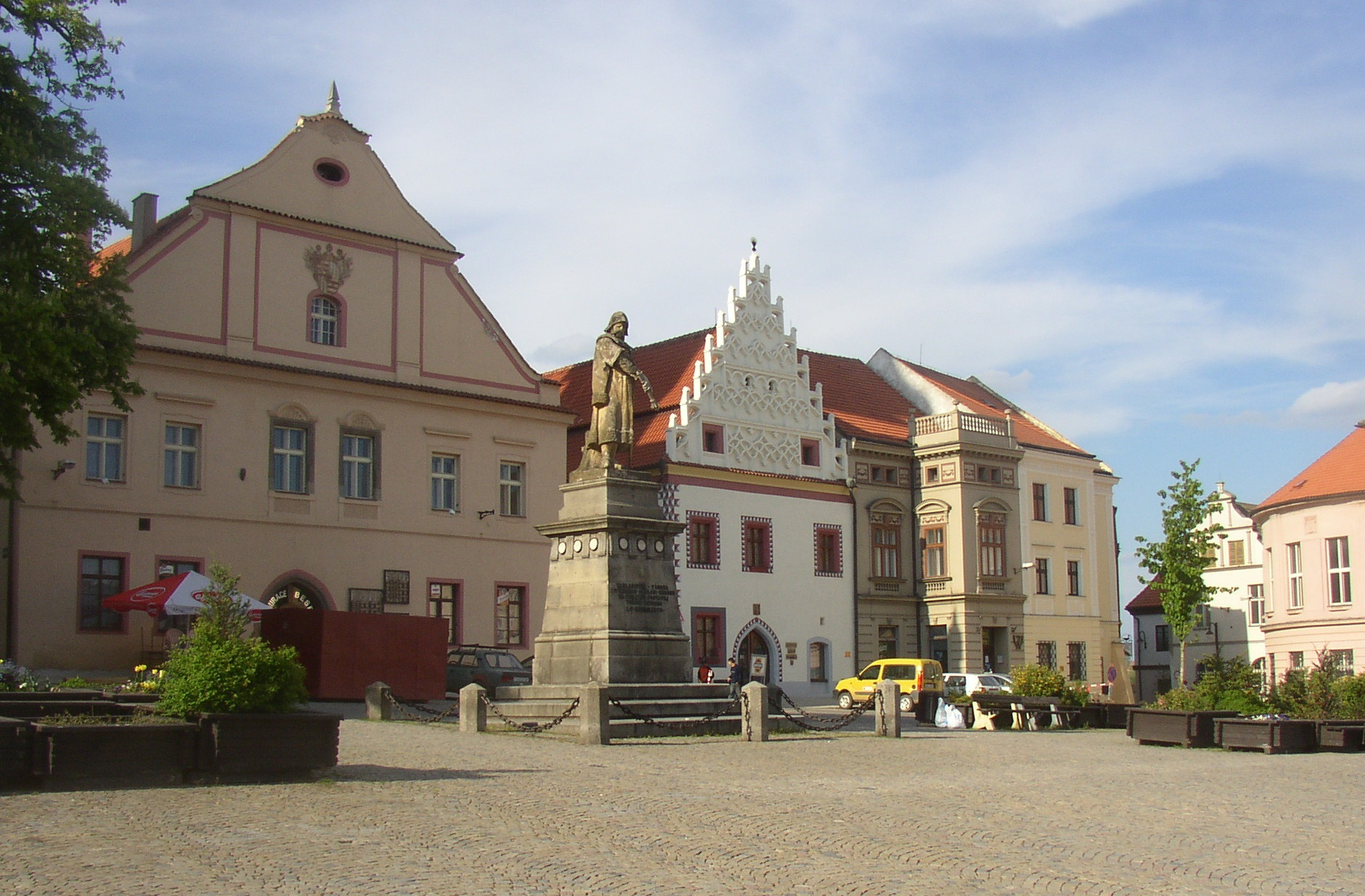 Memorial of Jan Žižka in Žižka Square in Tábor, Czech Republic.